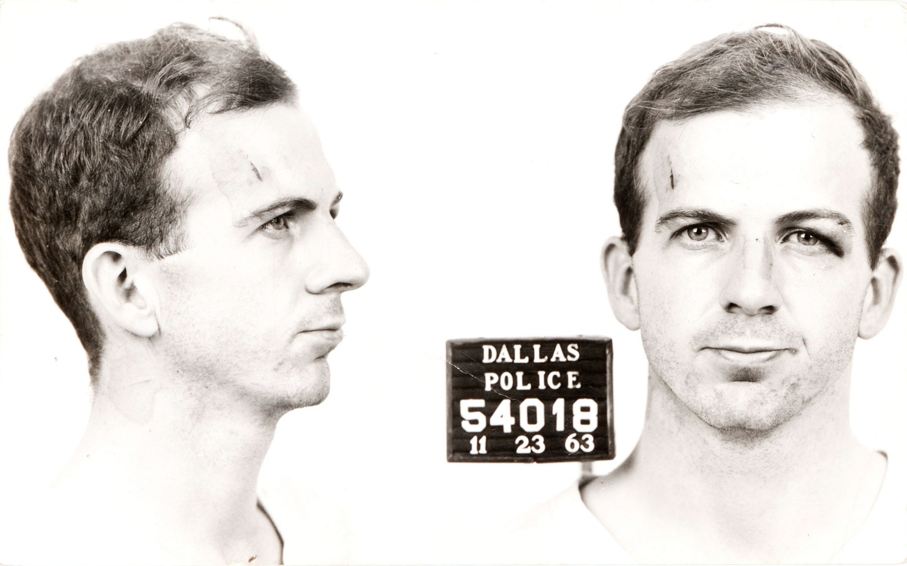 Arrest card of Lee Harvey Oswald on November 23, 1963, the day after he assassinated United States President John F. Kennedy